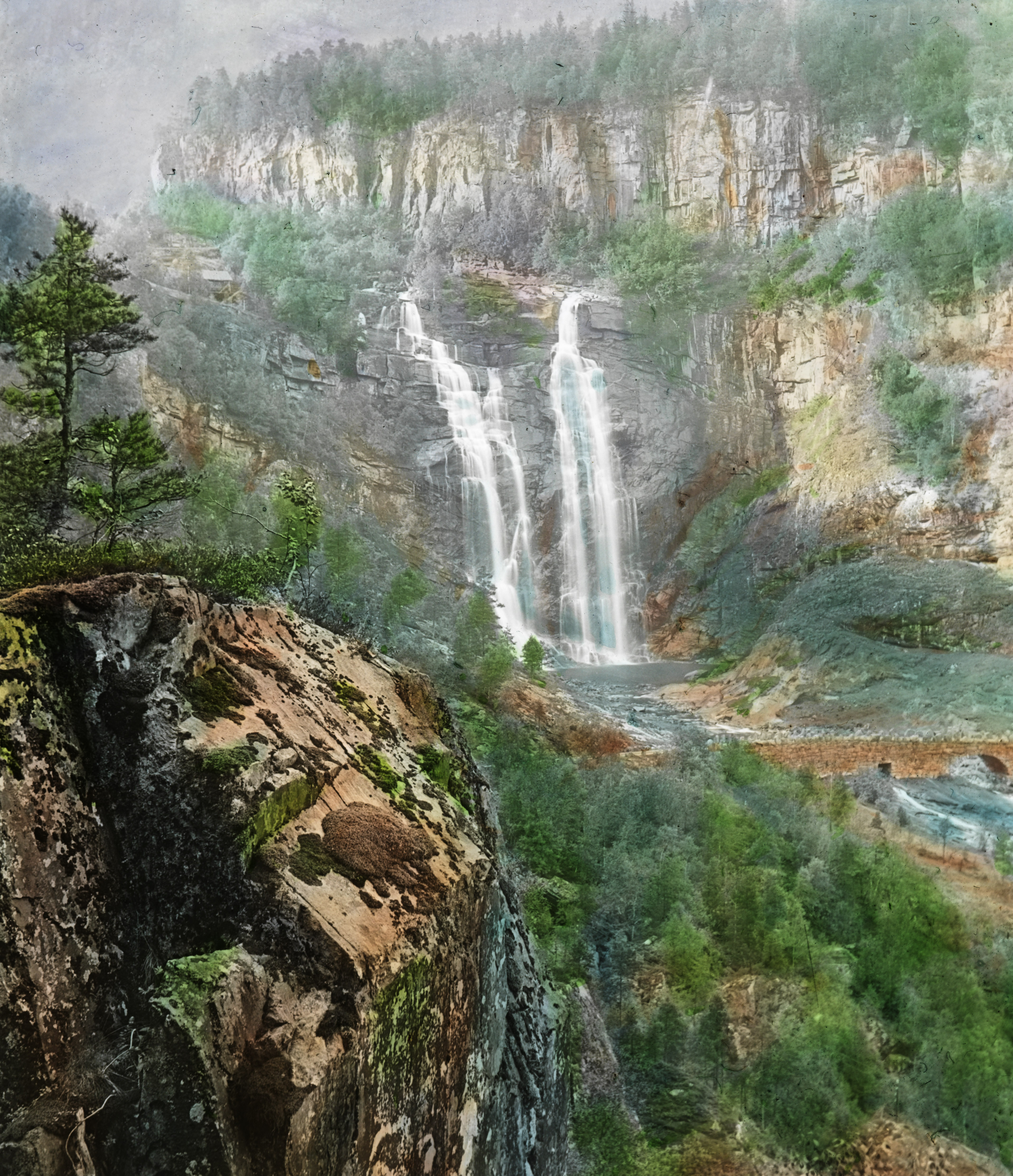 SFFf-1992078.0060 The Skjervefossen waterfall near Granvin, Hardanger.